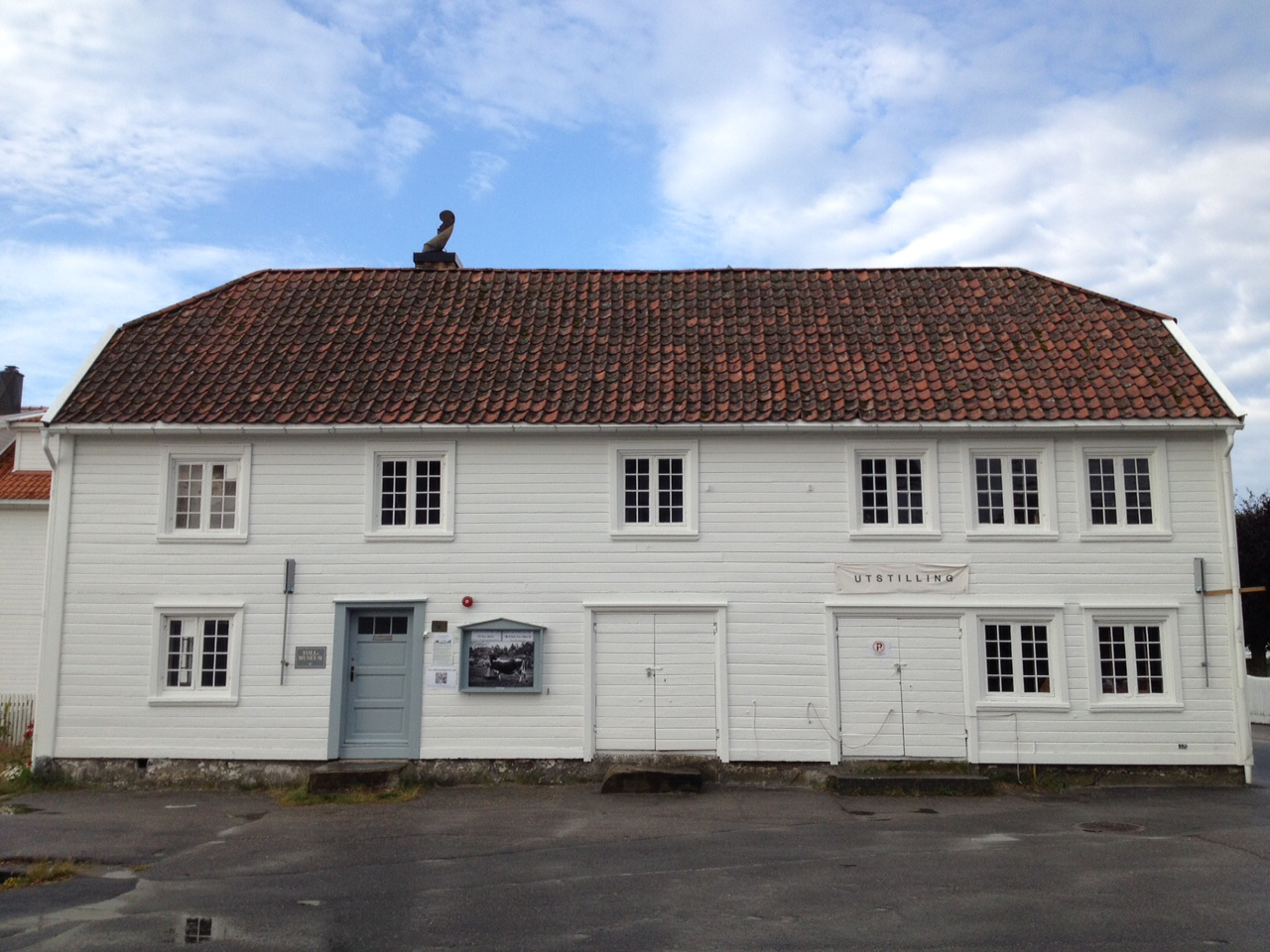 the listed customs house in Lillesand, Norway